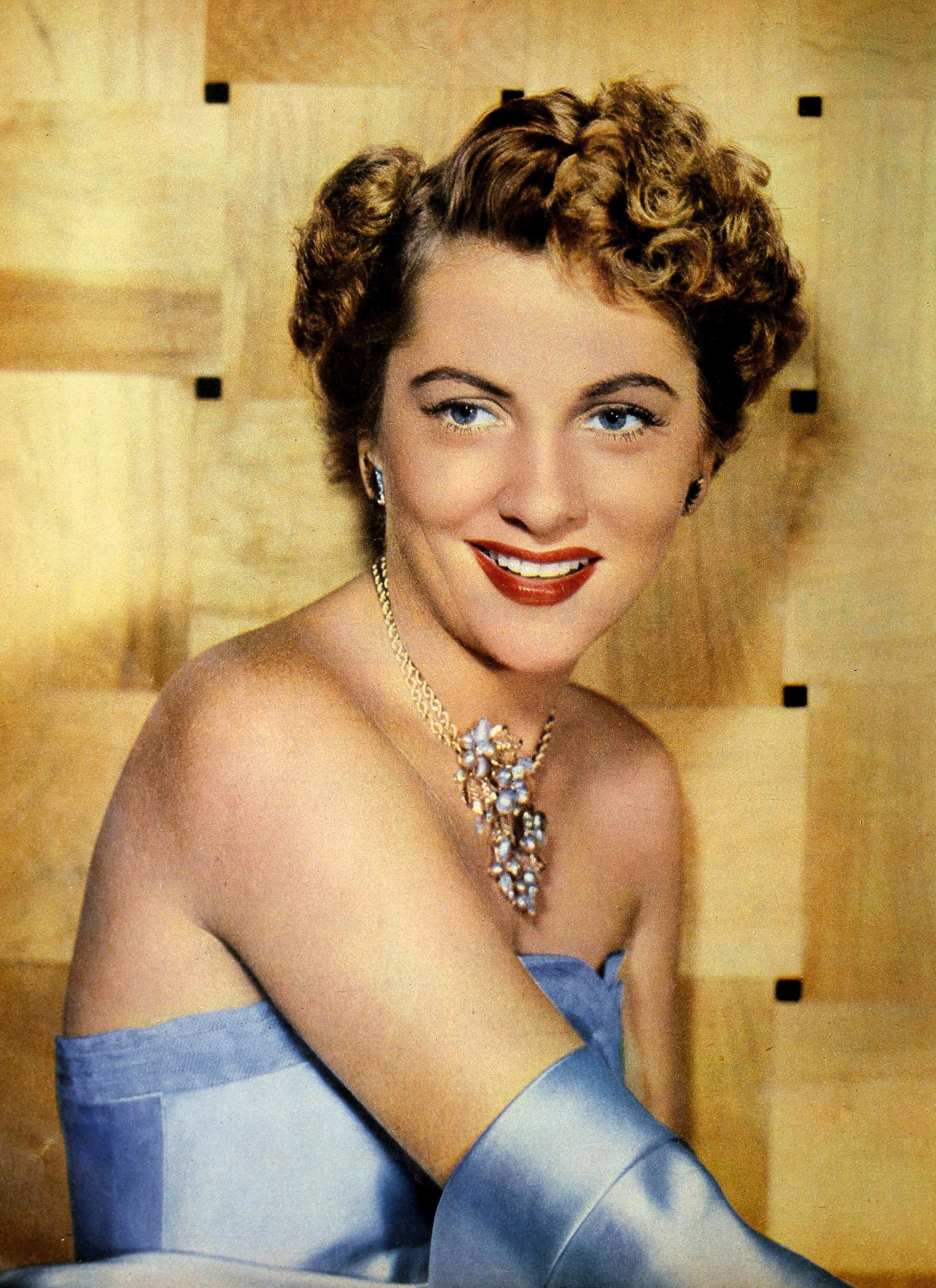 Photo of Joan Fontaine.